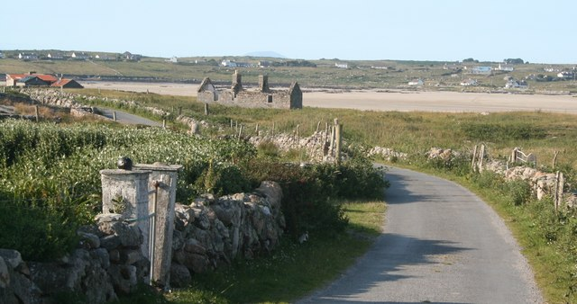 Ruins of Kearney's house on Omey Island. At low tide you can walk or drive to Omey Island across a wide stretch of sand from Claddaghduff. Omey is rich in archaeological sites, including the ruins of the 7th century St Feichin's church, and a deserted village.